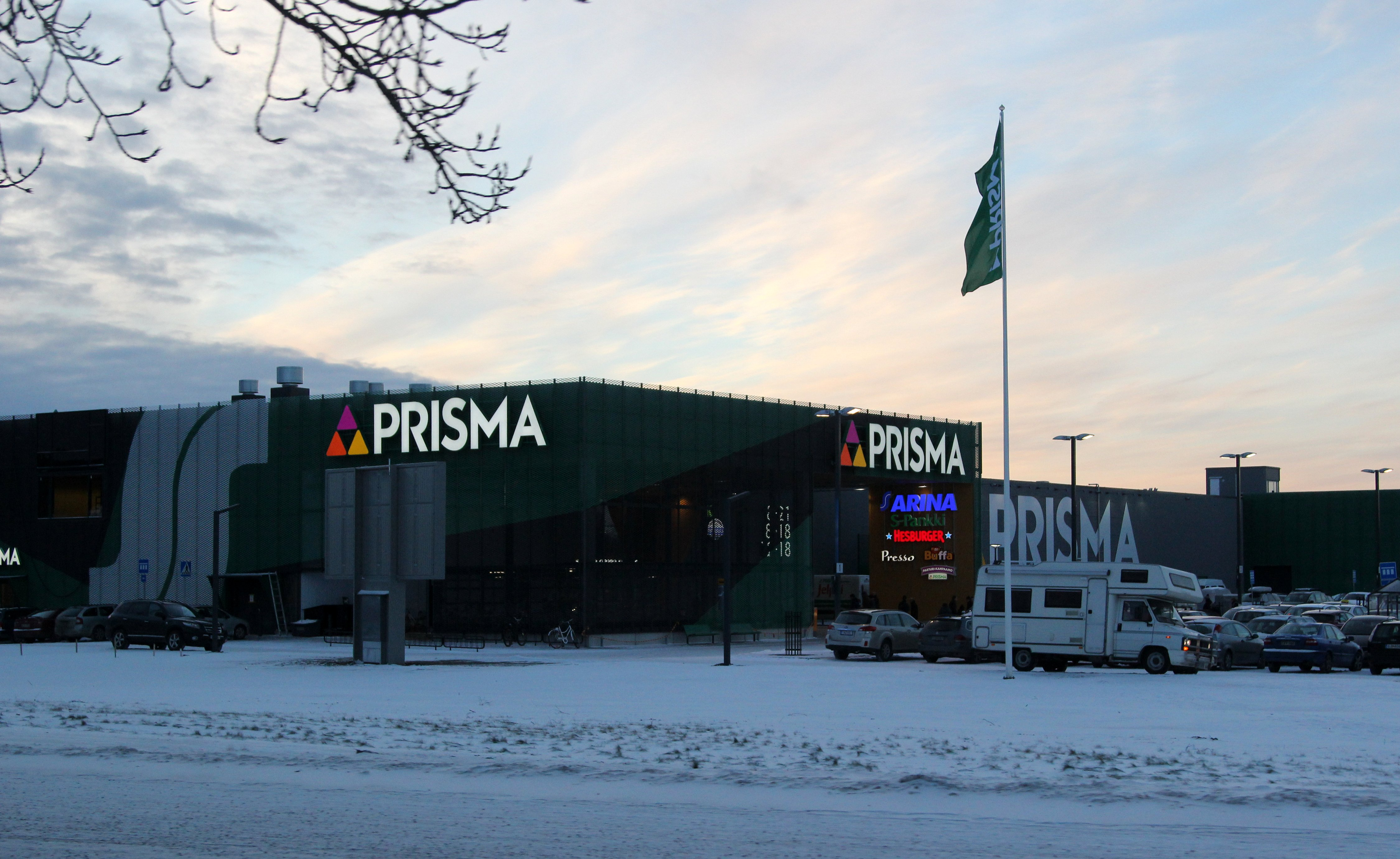 Prisma supermarket in Limingantulli, Oulu.